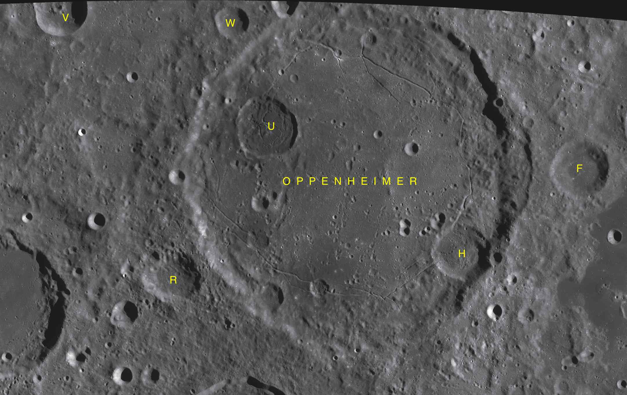 Part of the chart LAC-120 used for the presentation